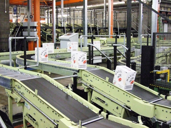 Conveyor system at Chivas Brothers Ltd in Dumbarton, Scotland